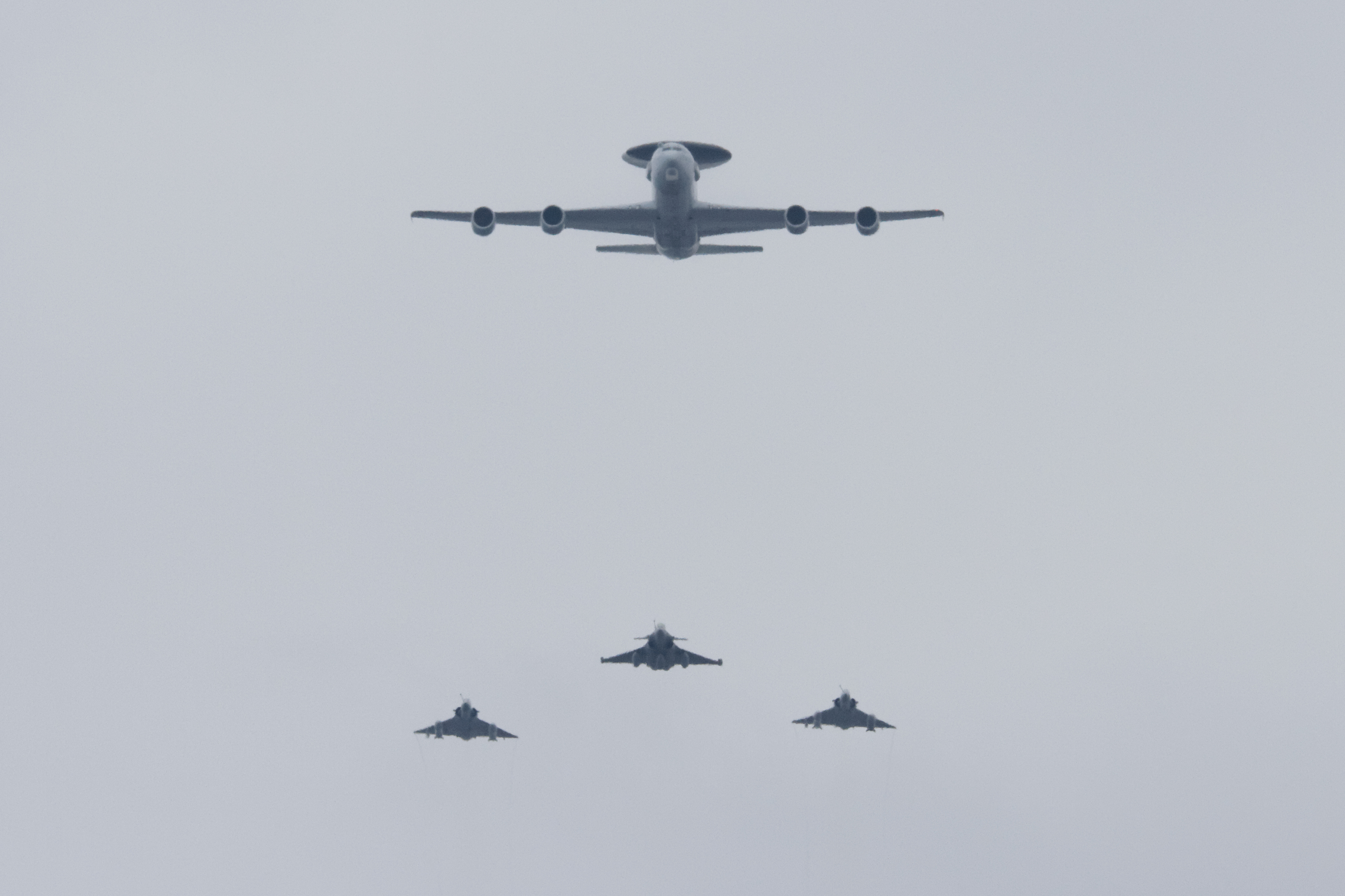 A 3-3F Awacs from group "Berry", one Rafale from group "Provence" and two Mirage 2000 RDY from group "Cigognes" take part in the fly-past at the Bastille Day 2014 military parade on the Champs-Élysées in Paris.